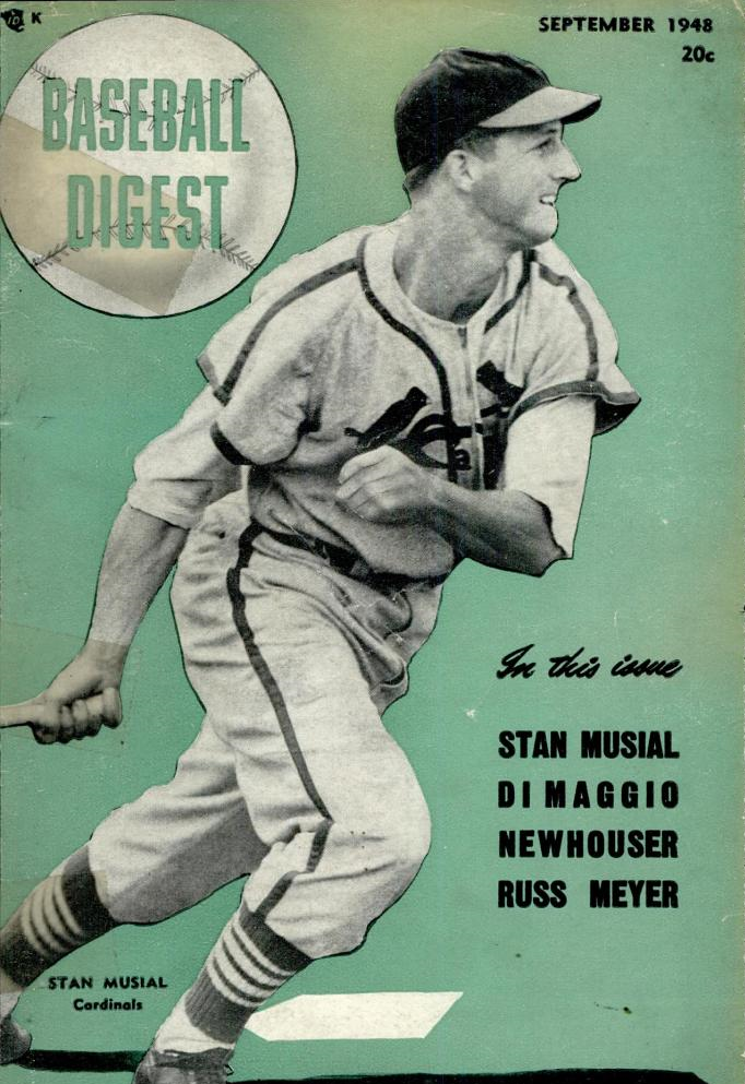 An image of Hall of Fame Major League Baseball player Stan Musial.